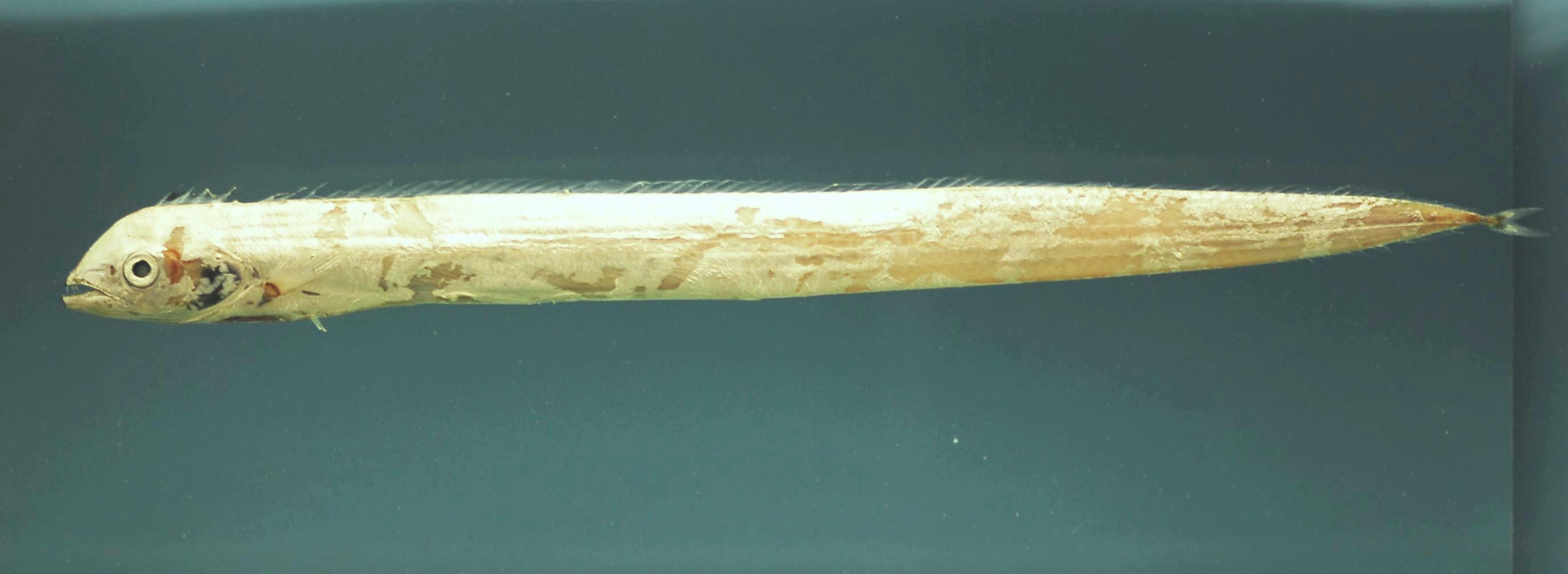 Channel scabbardfish ( Evoxymetopon taeniatus ). Gulf of Mexico.